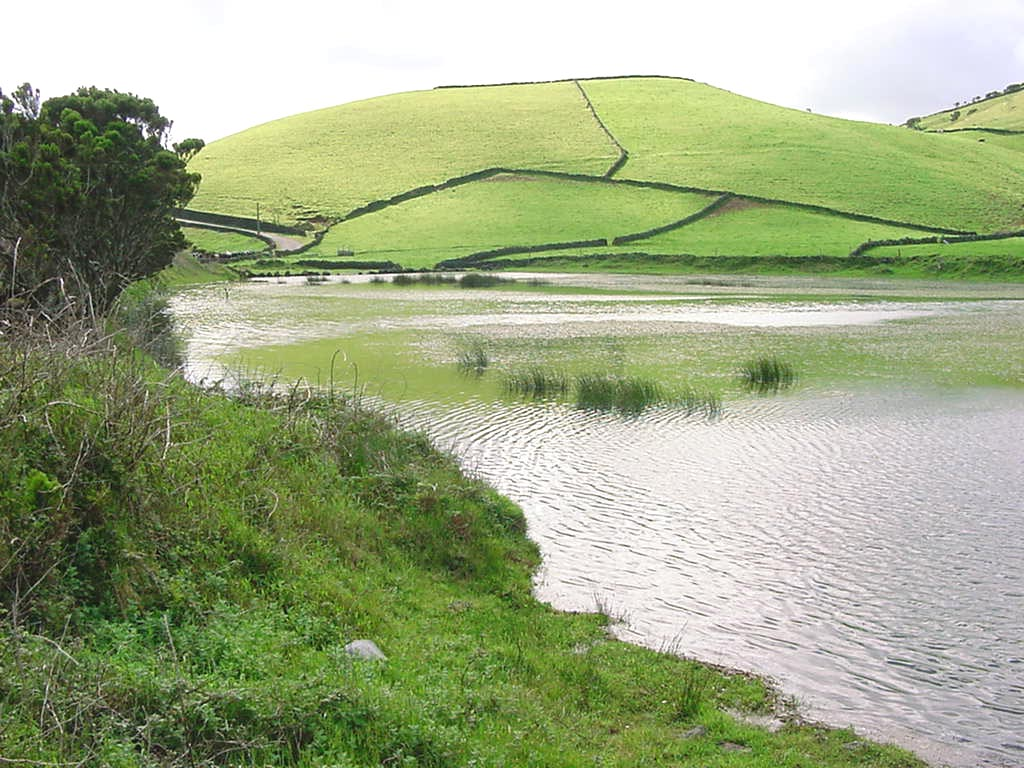 A view of the Lagoa do Ginjal, in the summer, municipality of Angra do Heroísmo, island of Terceira (Azores), Portugal